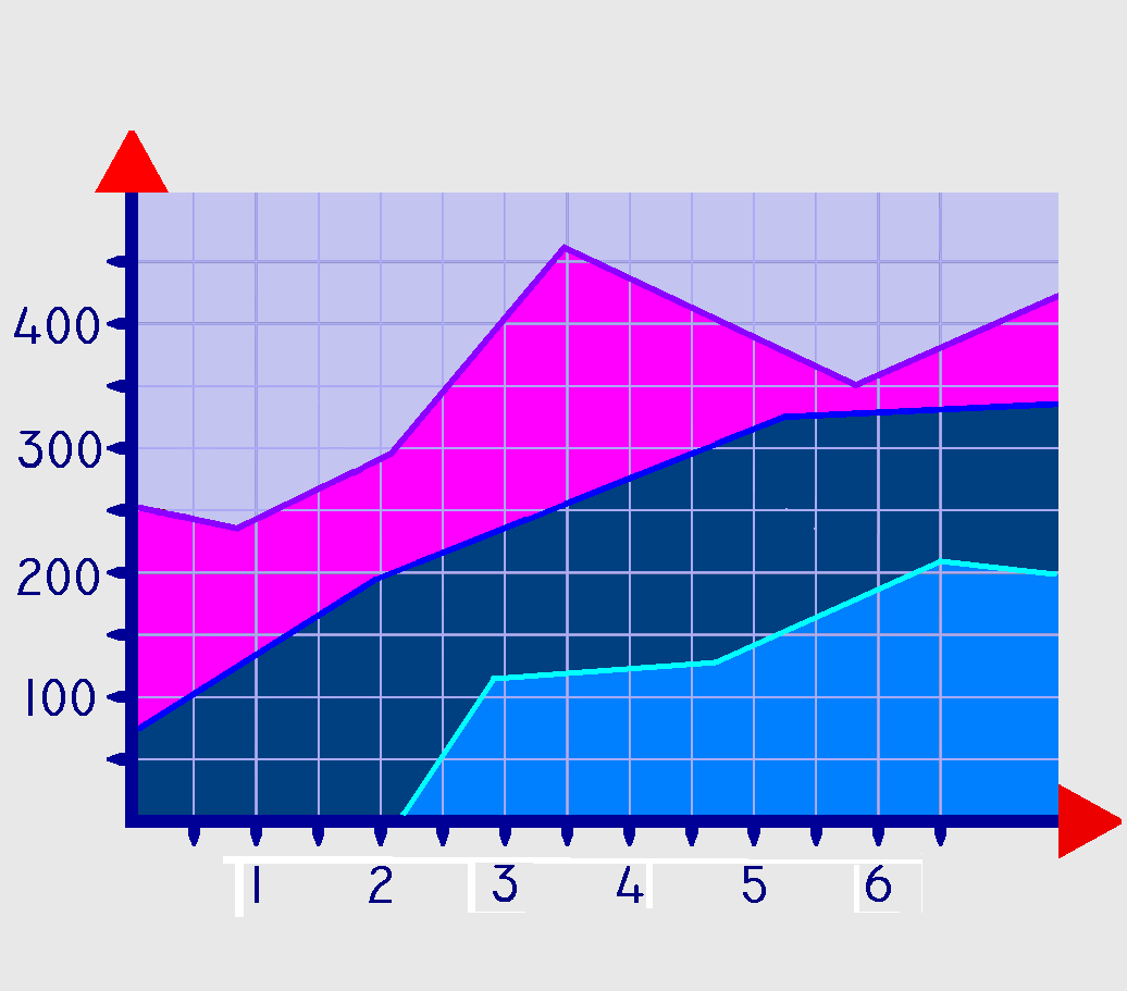 The schematic image of the hill diagram.